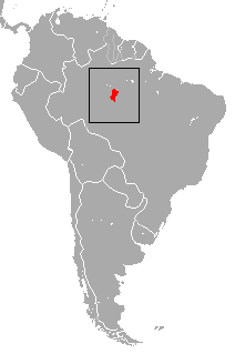 Satere Marmoset (Mico saterei) range IUCN: Mico saterei (Silva Jr. & Noronha, 1998) (old web site) (Least Concern)